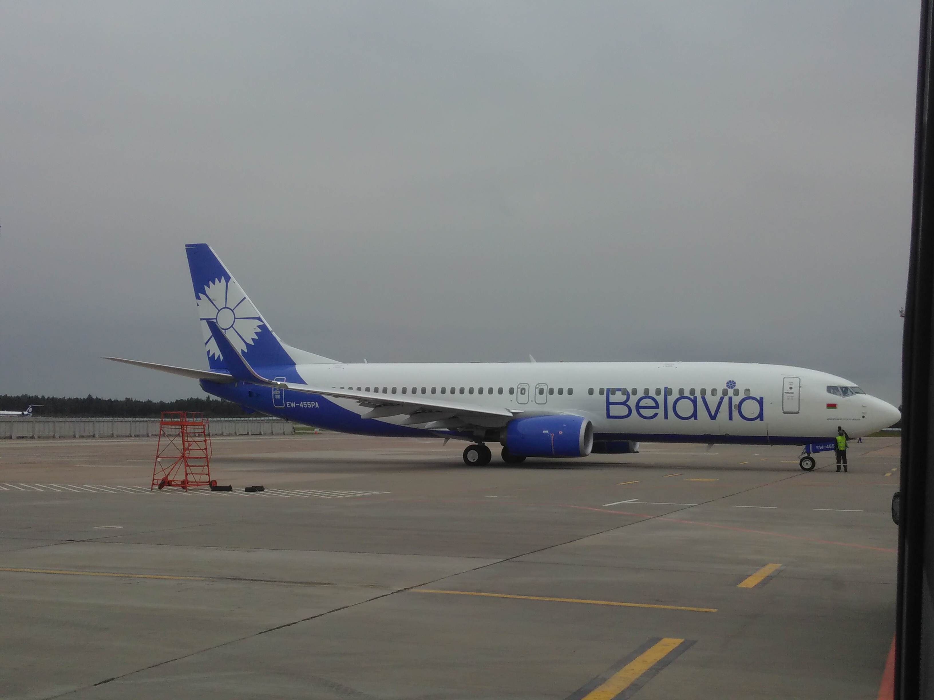 New Airplane Design Belavia 2017 in Minsk